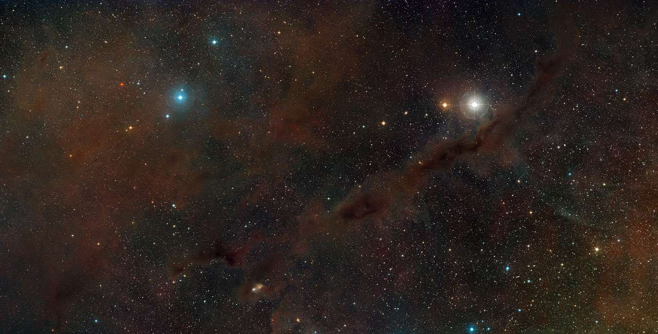 Taurus Molecular Cloud